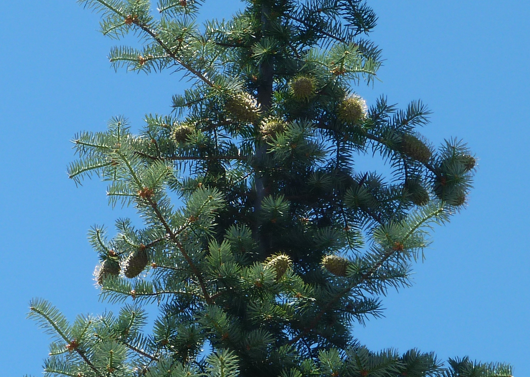 Abies bracteata upper crown with cones, Bottcher's Gap, California, USA